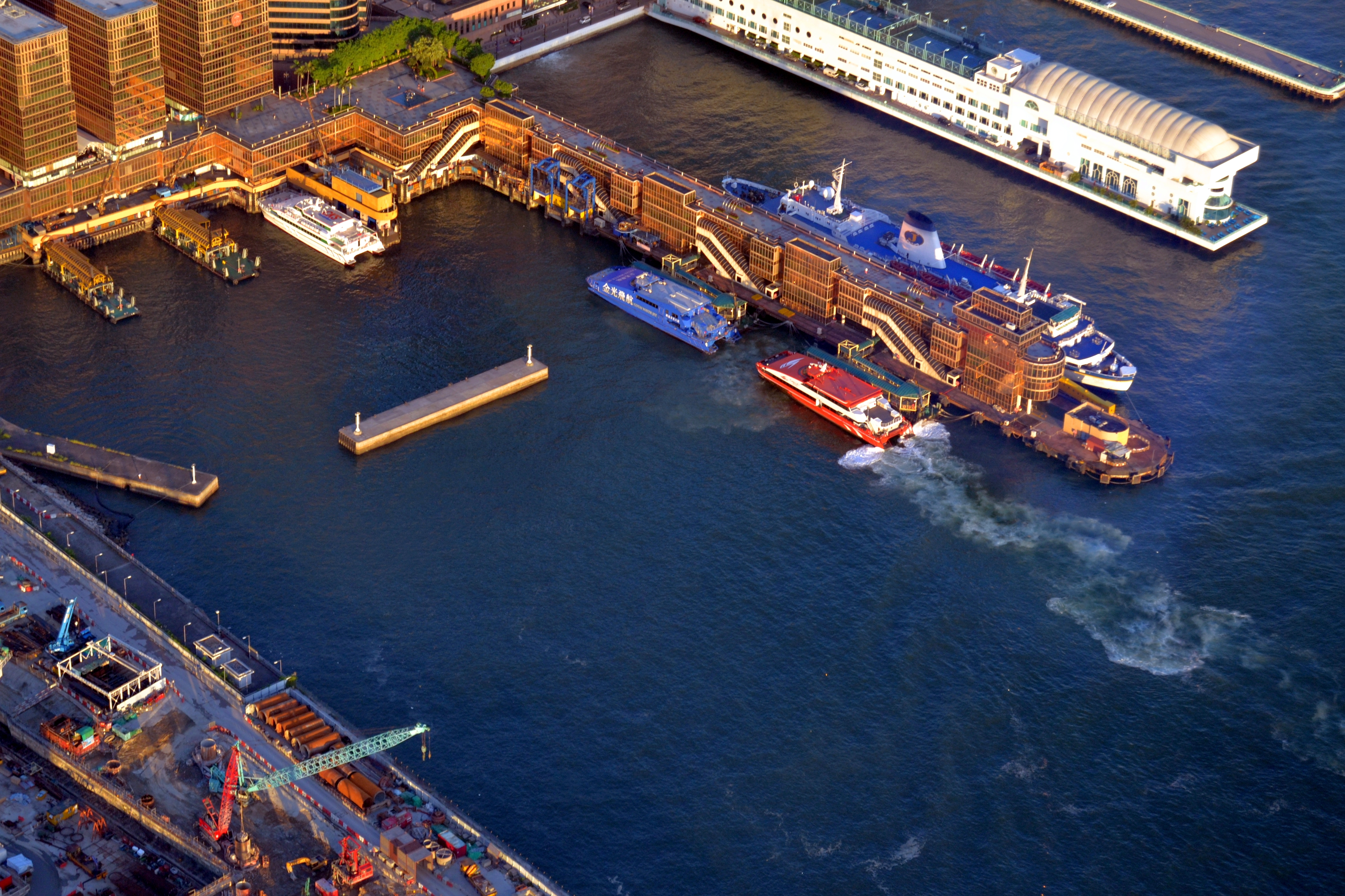 Wikimania 2013 welcome party at Sky100.